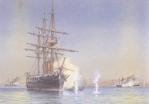 The Naval Combat in the Pacific between HMS SHAH and HMS AMETHYST and the Peruvian Rebel Ironclad Turret Ram HUASCAR on May 29th 1877.